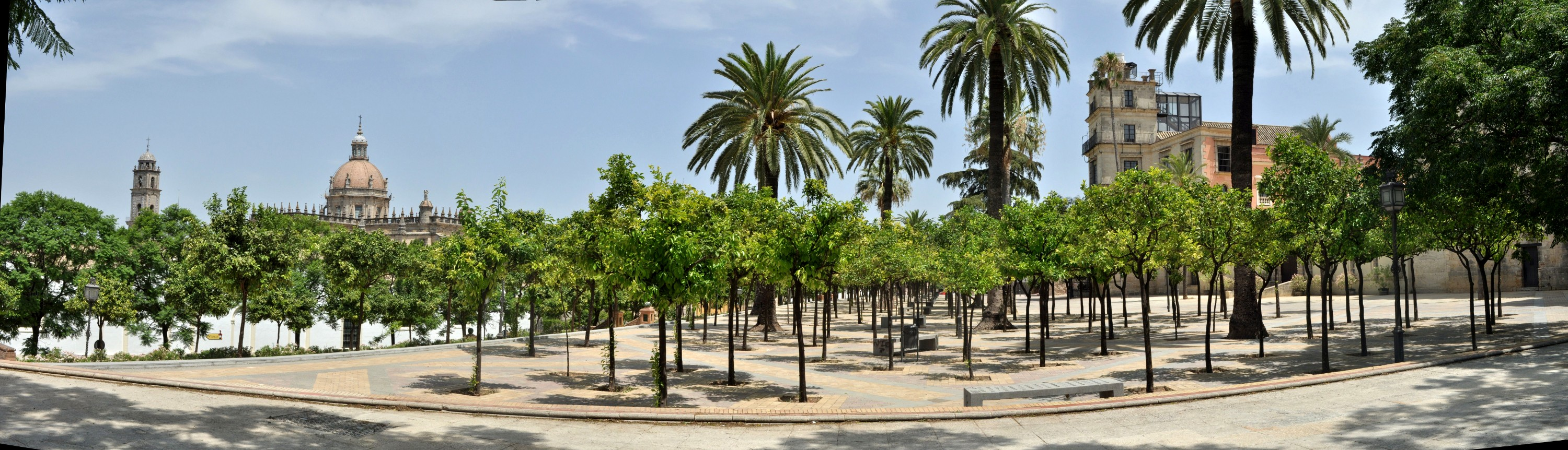 Old Square Panorama, Jerez